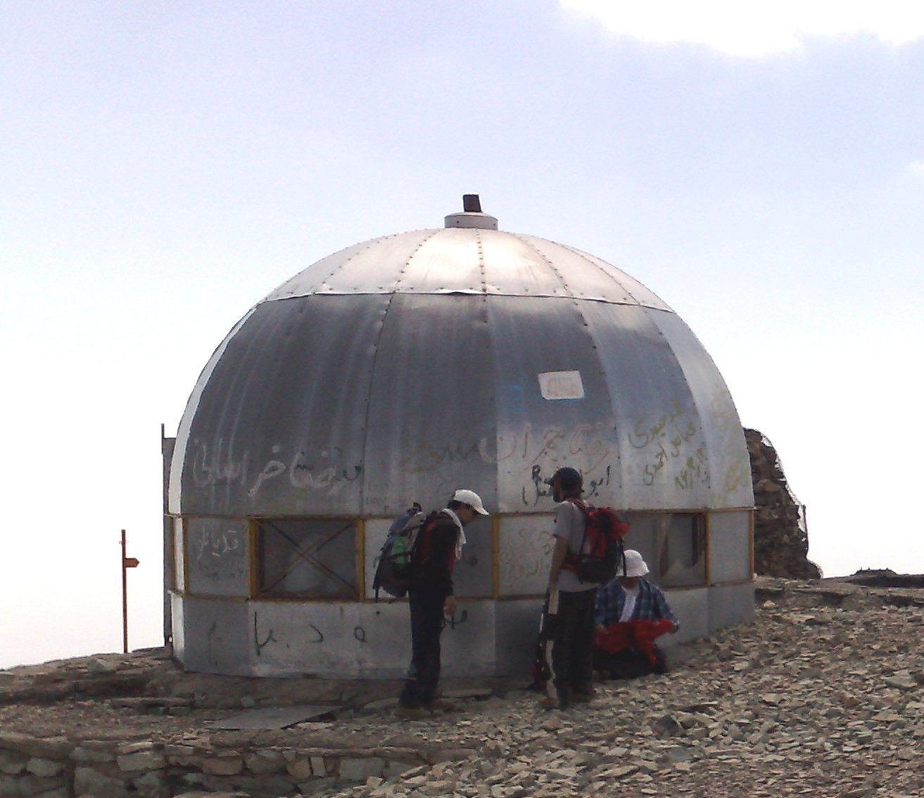 Tochal Hut.